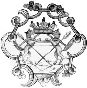 Historical coat of arms of Siberia